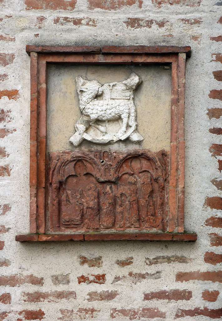 Terracotta bas-relief in the facade of the former Mirasole Abbey, in Opera, near Milan, Italy